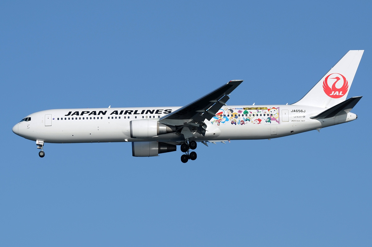 Doraemon Jet C/S